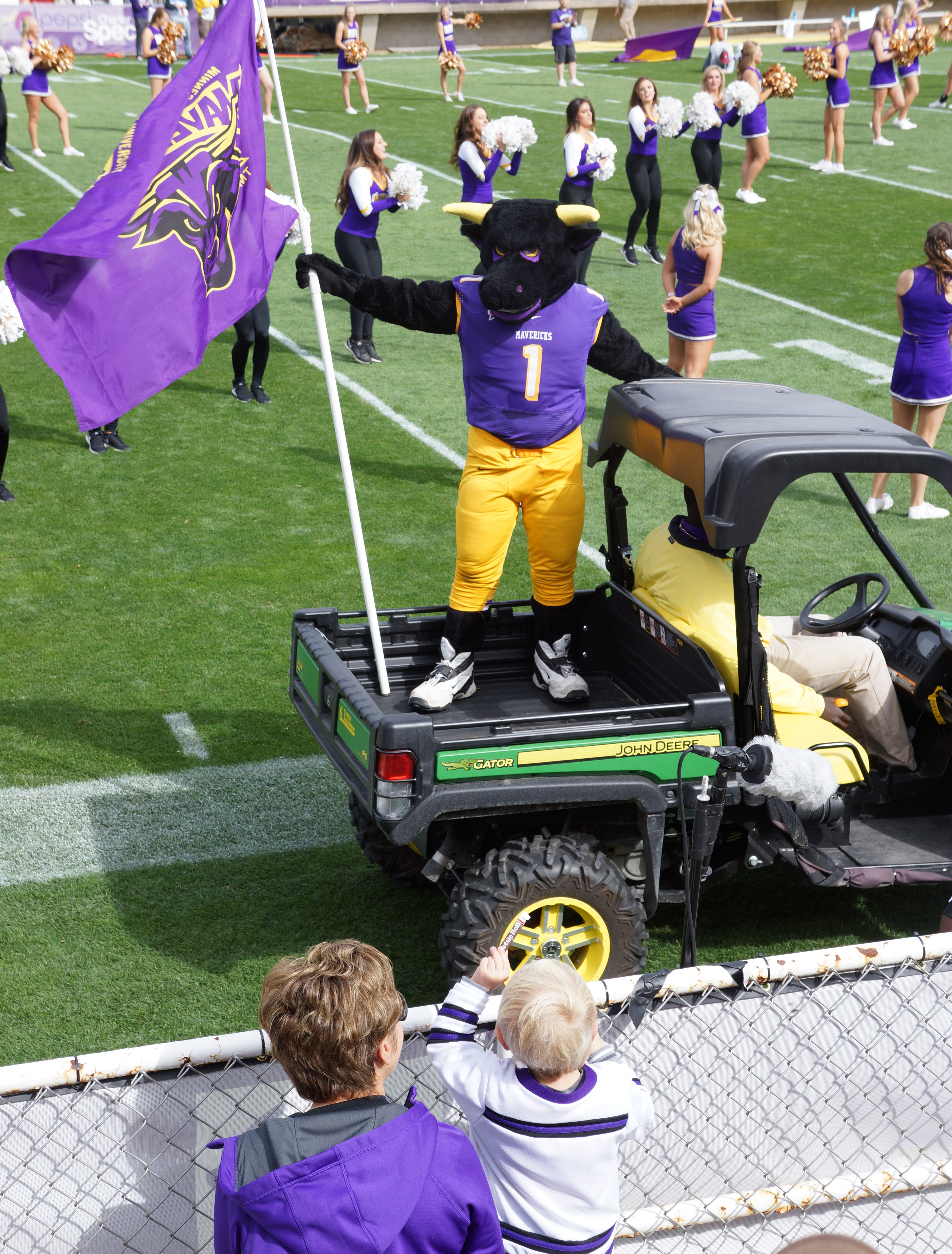 Stomper (school mascot) during a NCAA Division II football game at Blakeslee Stadium